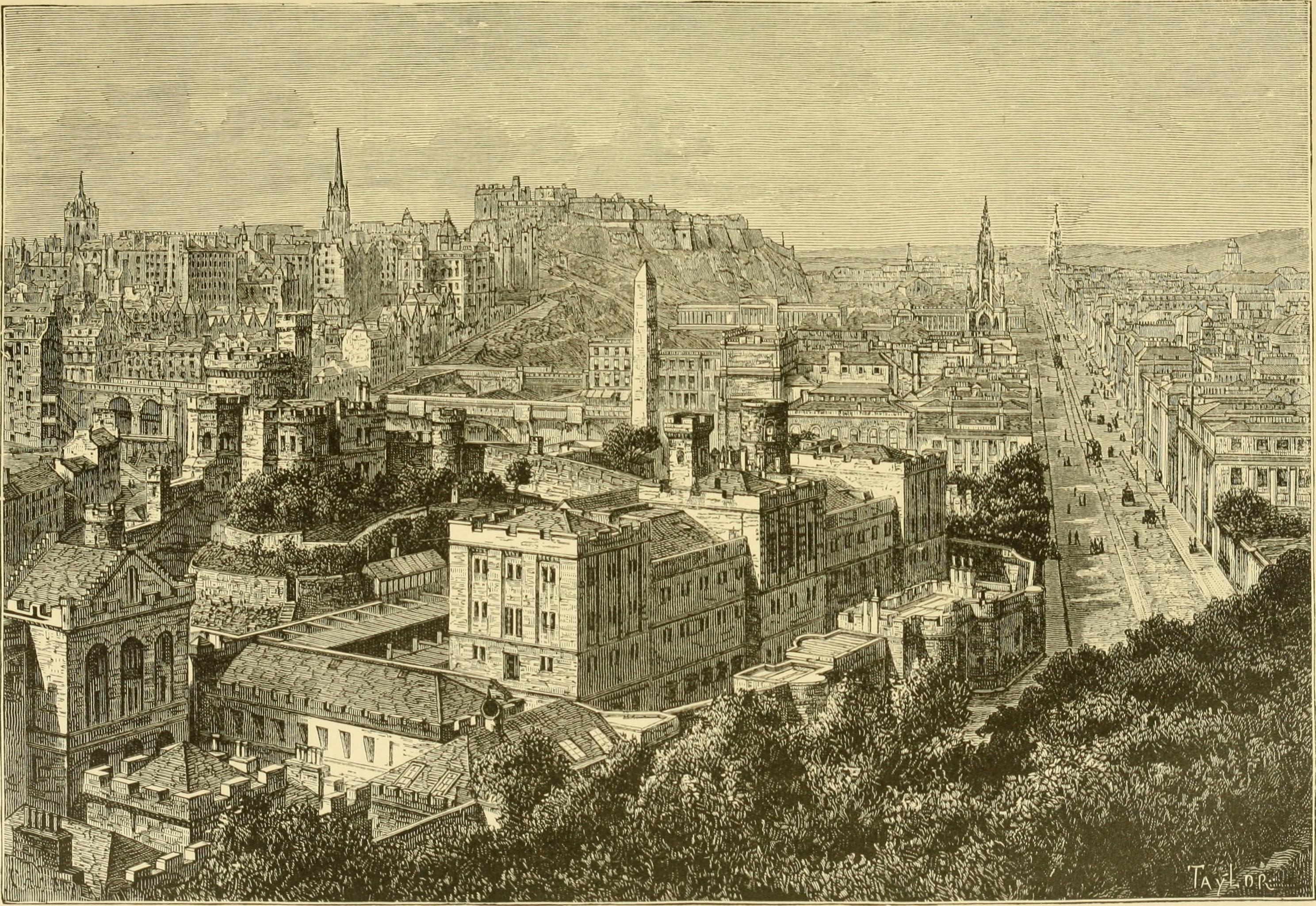 Title: The earth and its inhabitants .. Year: 1881 (1880s) Authors: Reclus, Elisée, 1830-1905 Ravenstein, Ernest George, 1834-1913 Keane, A. H. (Augustus Henry), 1833-1912 Subjects: Geography Publisher: New York, D. Appleton and company Text Appearing Before Image: Signet Libraries, supported by the advocates and writers to the Signet, butthrown open, with commendable liberality, to the public at large. The AdvocatesLibrary is entitled to a copy of every book published in the United Kingdom, andamongst other treasures bearing upon the history of Scotland, it contains theprecious collection of Gaelic manuscripts formed by the Highland Society in thecourse of the inquiry instituted to determine the authenticity of Ossians poems.The Signet Library is rich in works relating to the history of England andIreland. Holyrood Palace possesses the remains of its abbatial church and a fewcurious pictures, but historical associations attract the crowds who visit it moreespecially to the apartments formerly occupied by Mary, Queen of Scots. The most prominent public buildings of Edinburgh are consecrated to educa-tion. The university, founded in 1582, is attended by 1,-jOO students, andpossesses a library of 100,000 volumes and valuable museums. The Museum of Text Appearing After Image: '